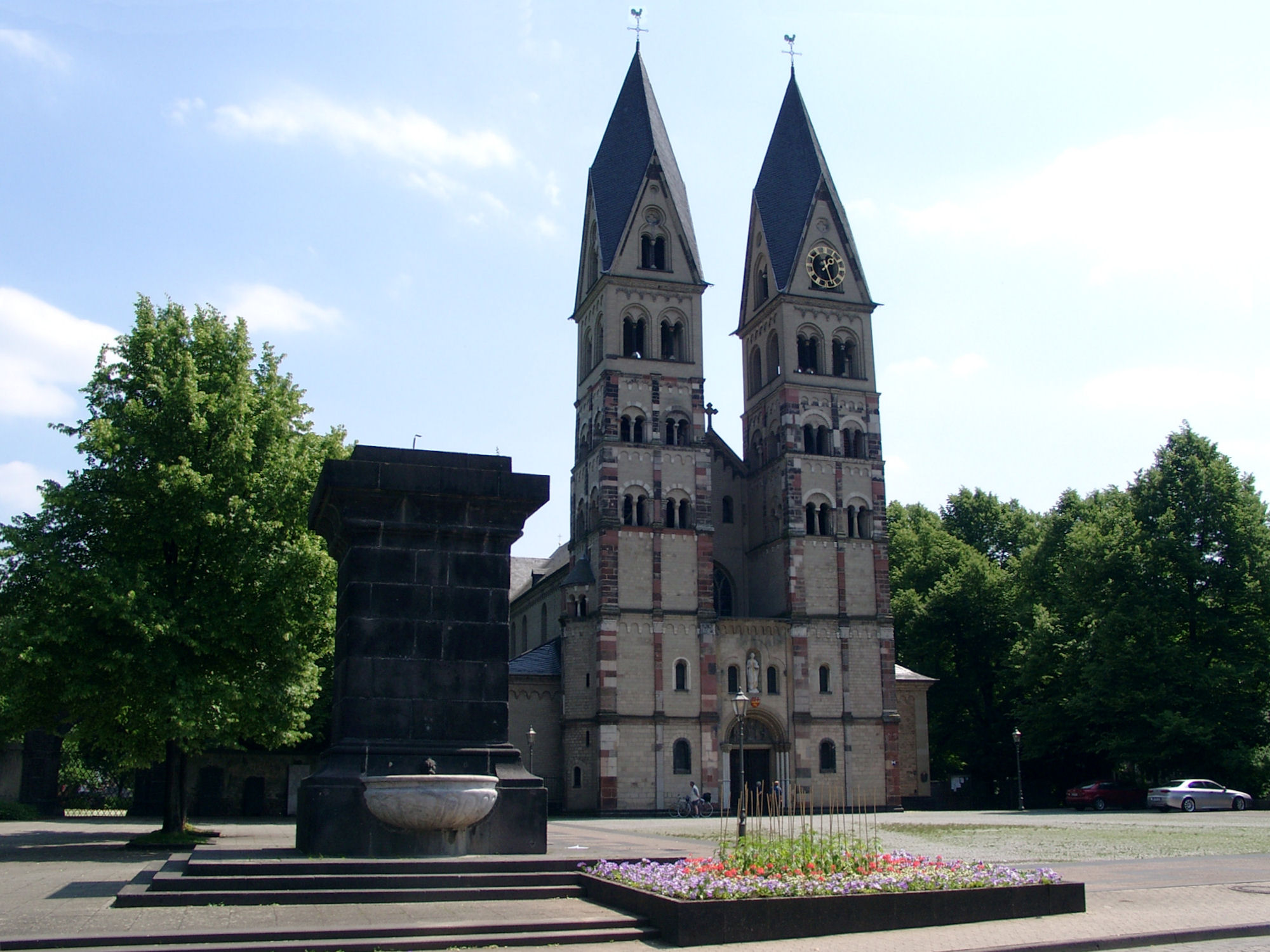 Basilica St. Kastor in Koblenz